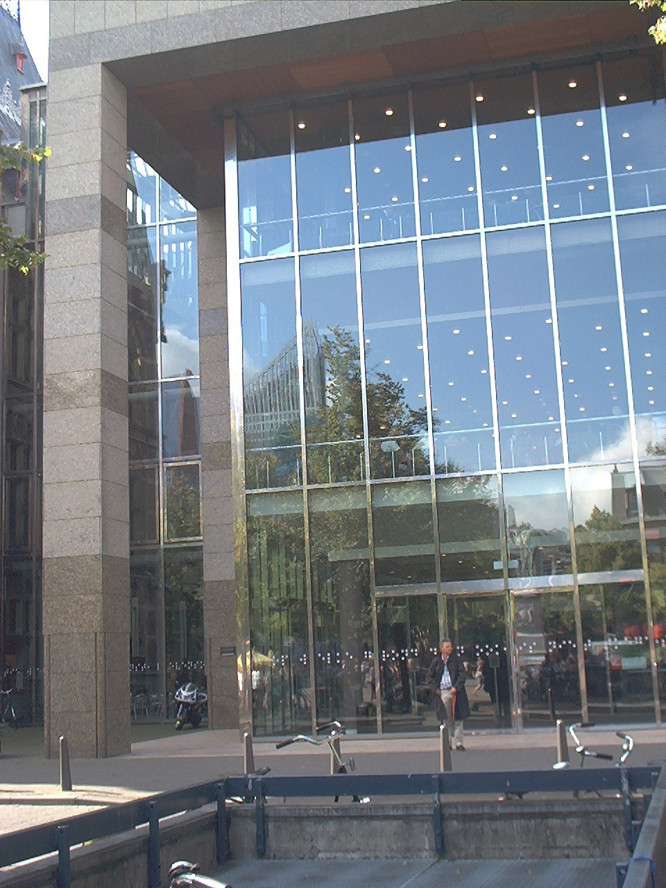 Entrance to the Tweede Kamer building on the Plein in The Hague.